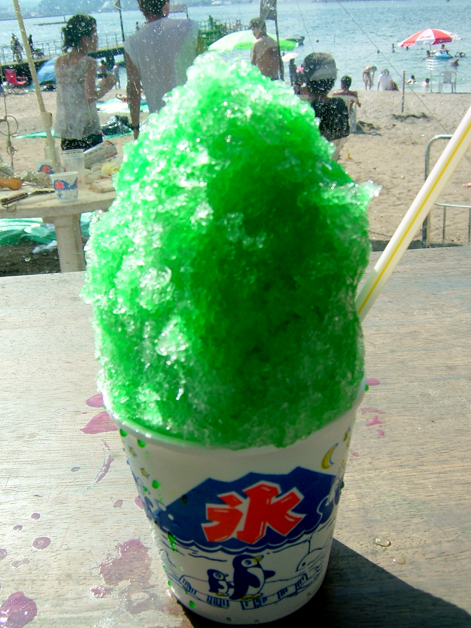 melon flavour shaved ice